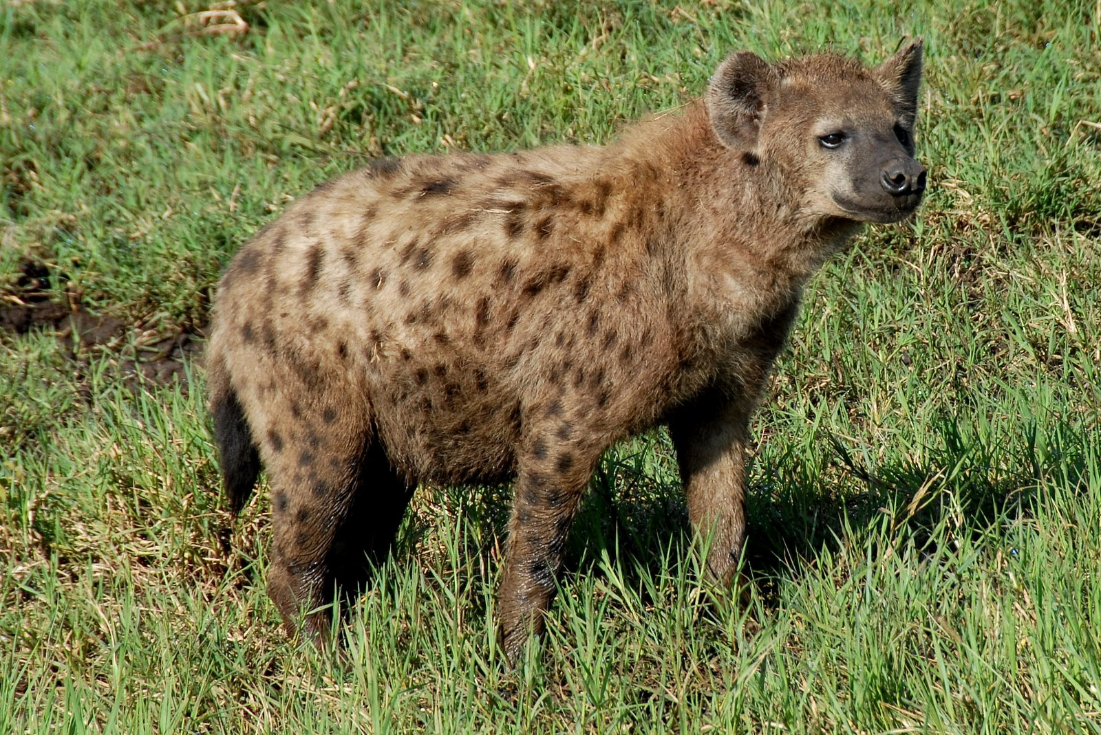 A Spotted Hyena at Ngorongoro Conservation Area, Tanzania.